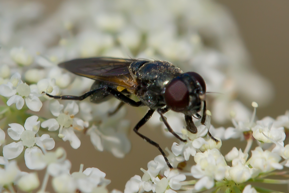 Cheilosia impressa